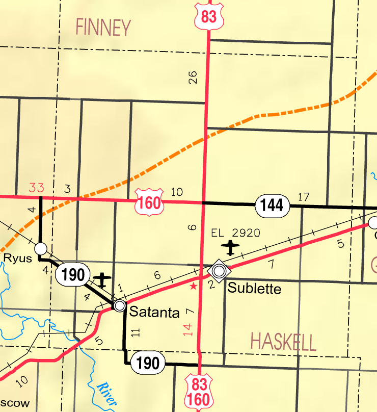 This map of Haskell County, Kansas, USA, is copied at a resolution of 300 pixels/inch from the original PDF file.